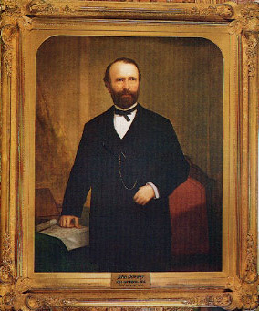 Seventh California Governor John G. Downey